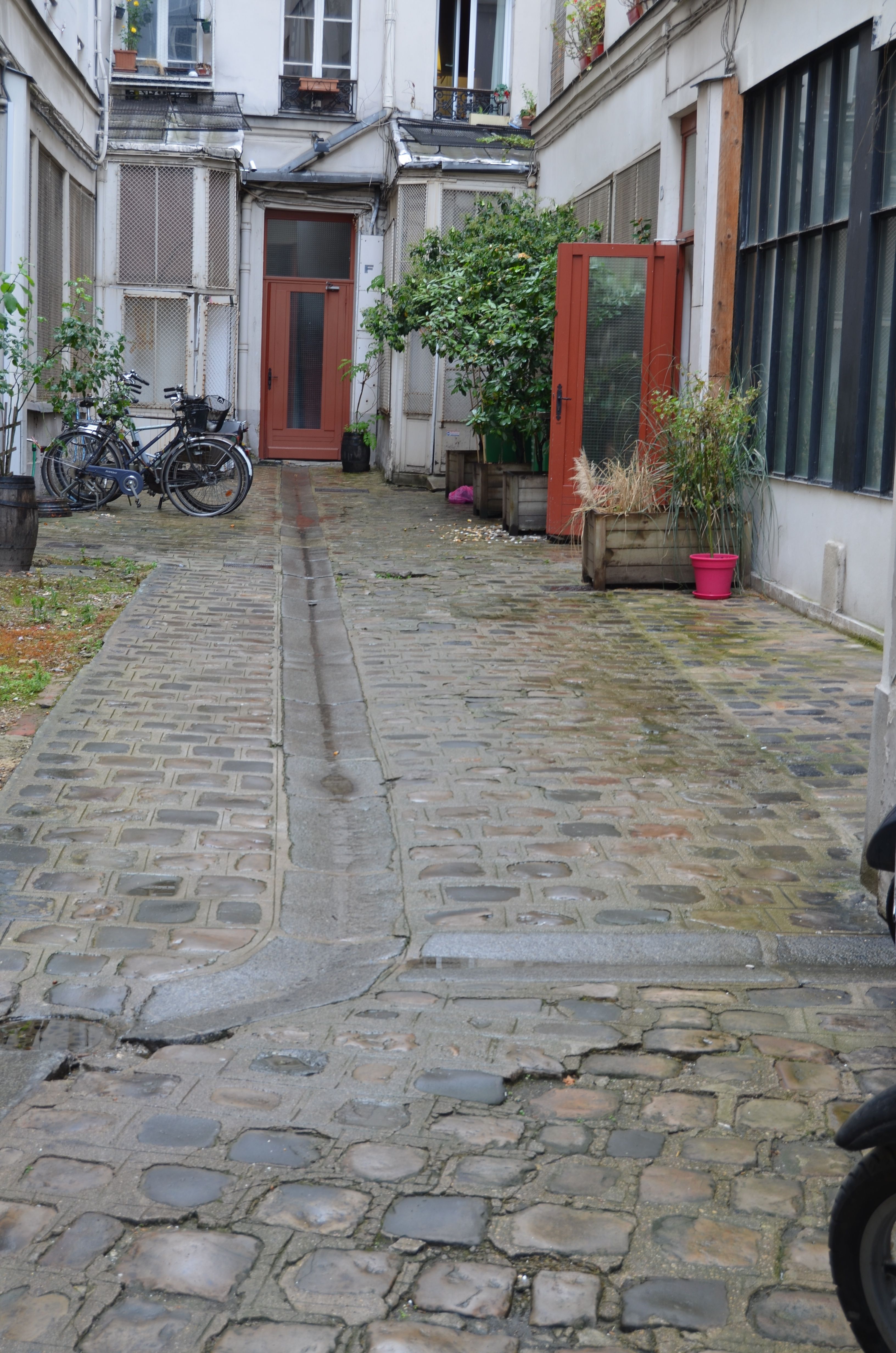 Apartment courtyard after shower, 137 Rue du temple, Paris.